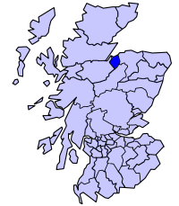 Nairn District 1975-1996.